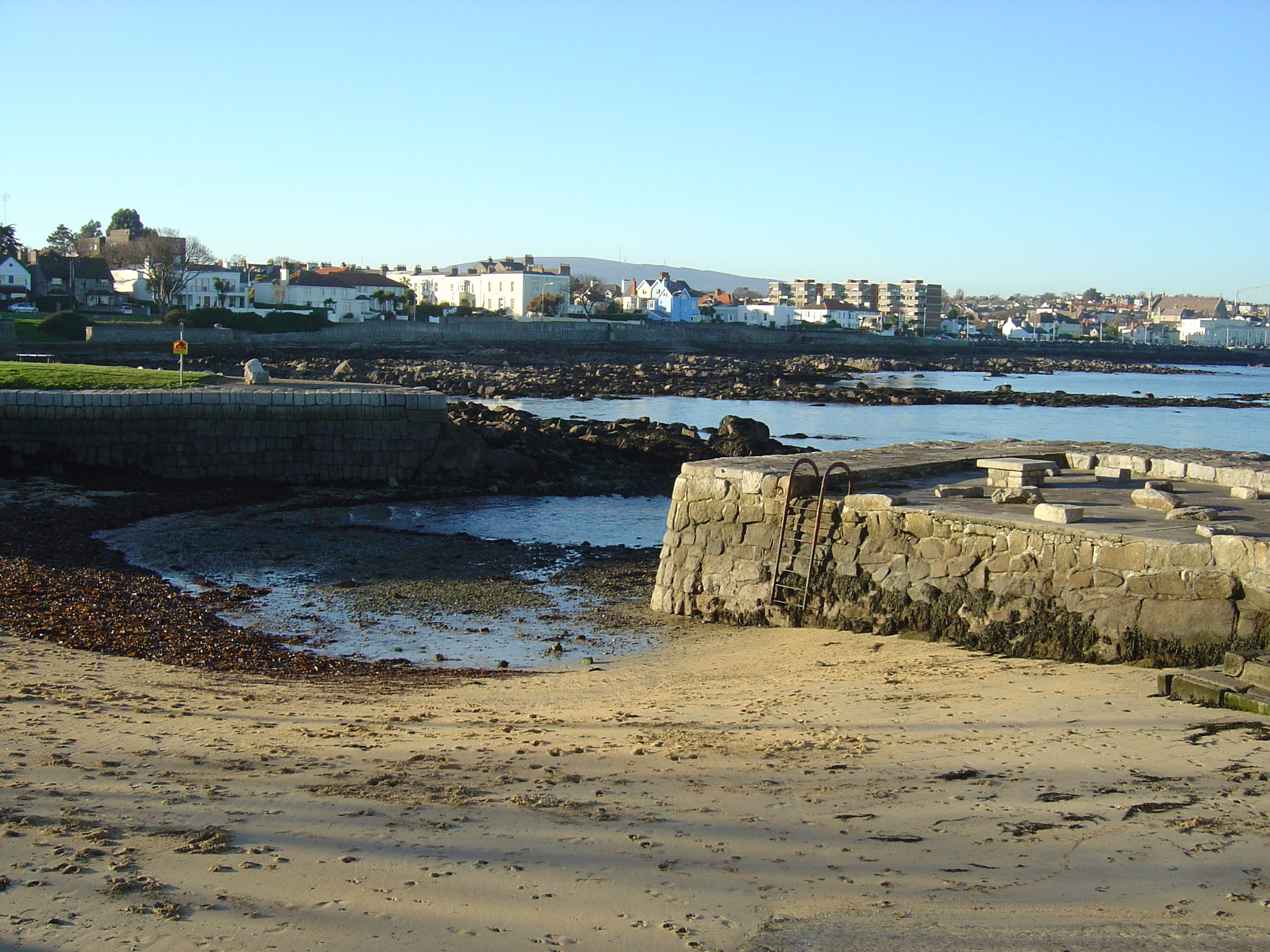 Sandycove Harbour